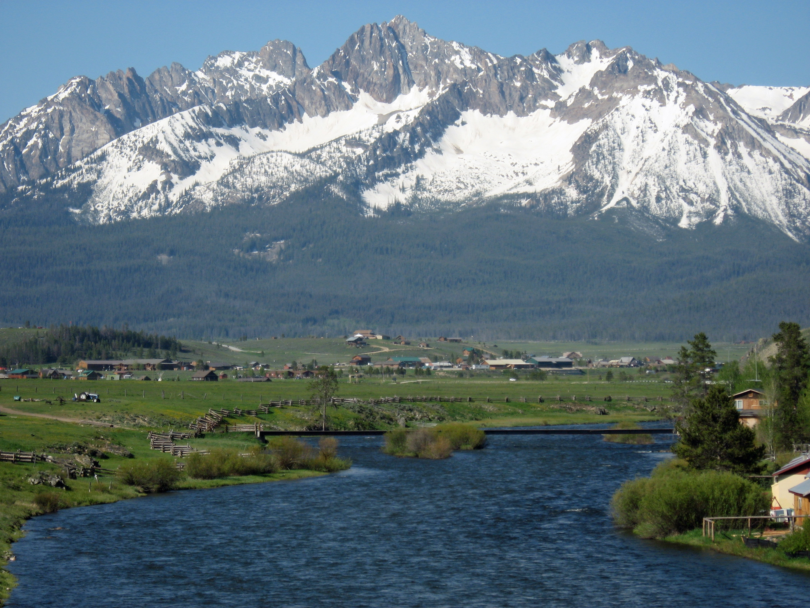 The Sawtooth mountain Range and the main Salmon River in Idaho, USA.